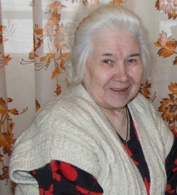 Alexandra Antonova and Michael Rießler (from left) during elicitation in Lovozero (April 2008)